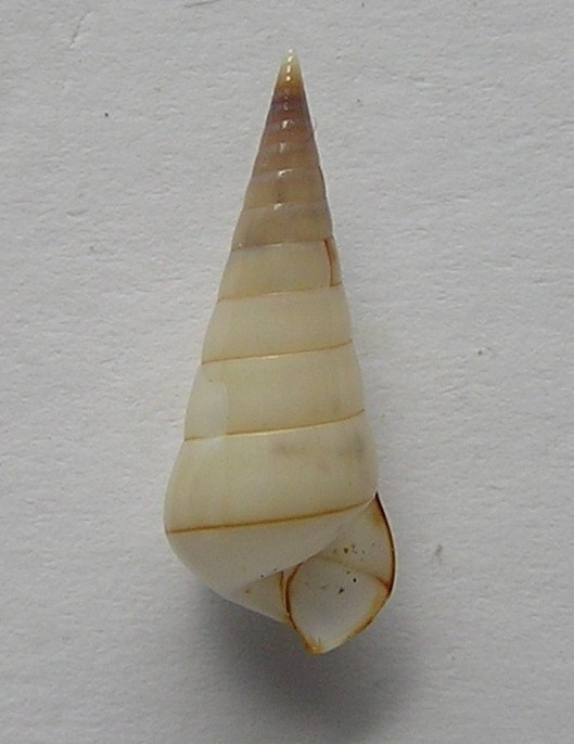 Niso hizenensis Kuroda, T. & T. Habe, 1950; Philippines